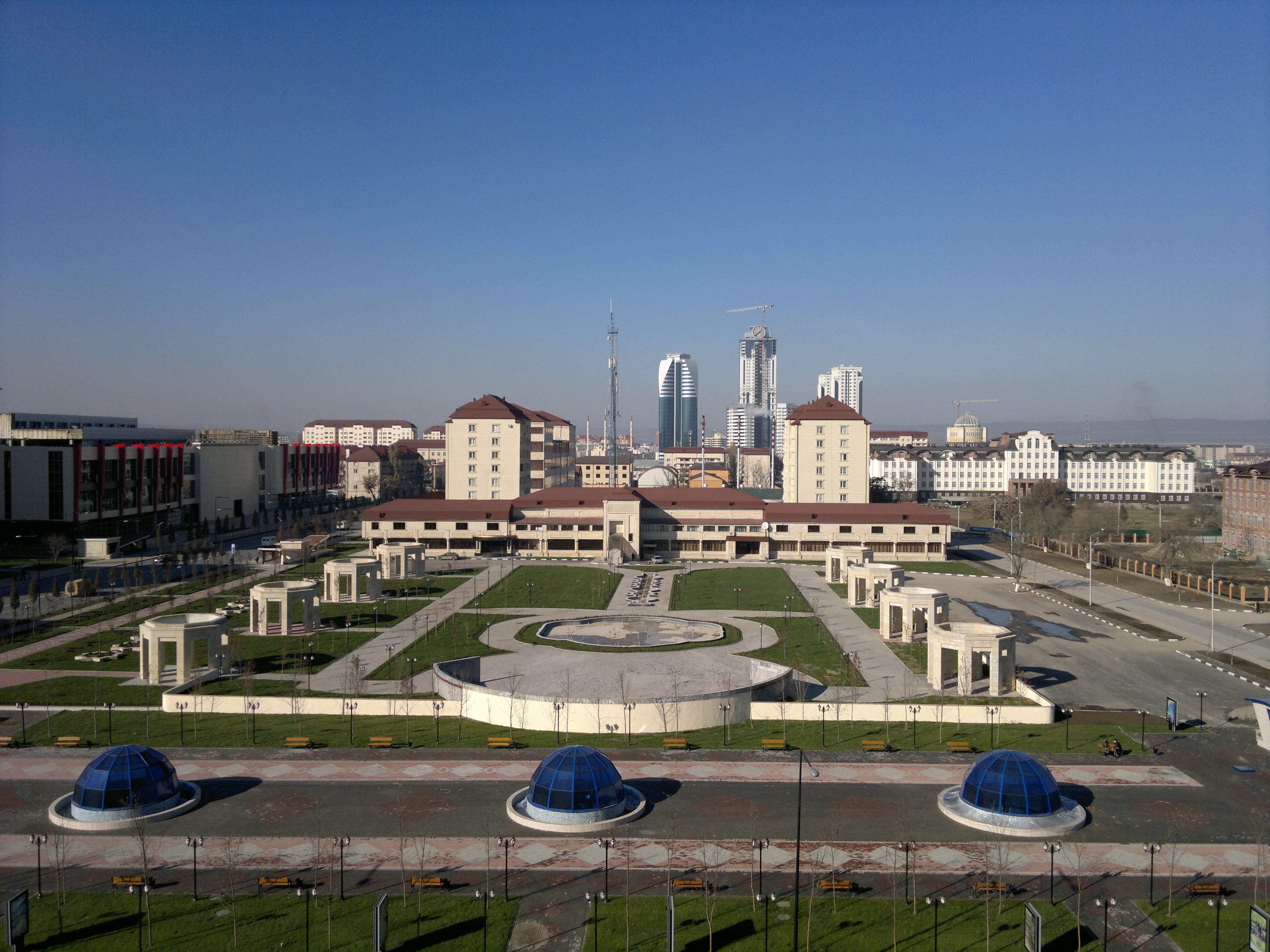 The city of Grozny in 2011.